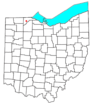 Locator map of the unincorporated community of Monclova in Lucas County, Ohio, United States.